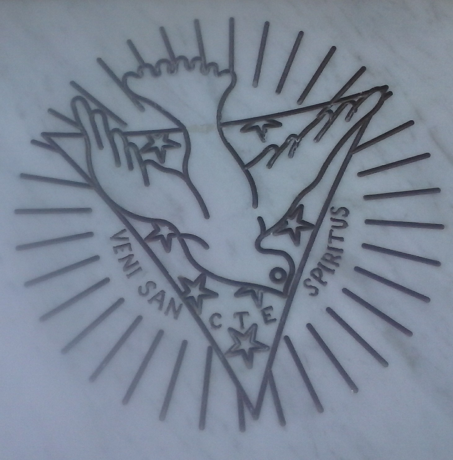 Stemma of Holy Spirit's Sisters, a Congregation founded in 1877 in Ariano di Puglia, Italy